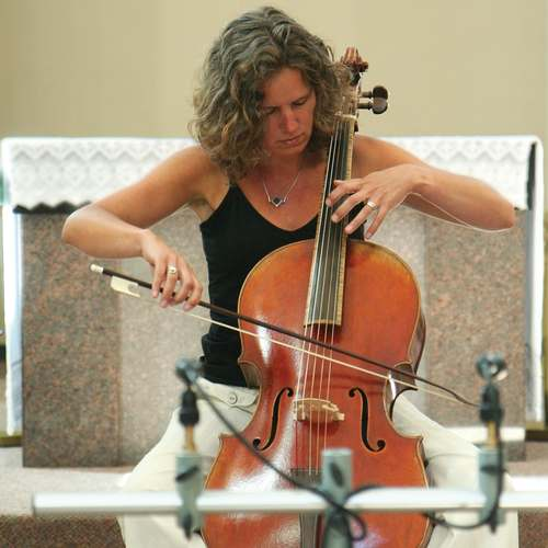 Josephine van Lier plays a violoncello piccolo during a recording session of the 6th Suite by Johann Sebastian Bach.